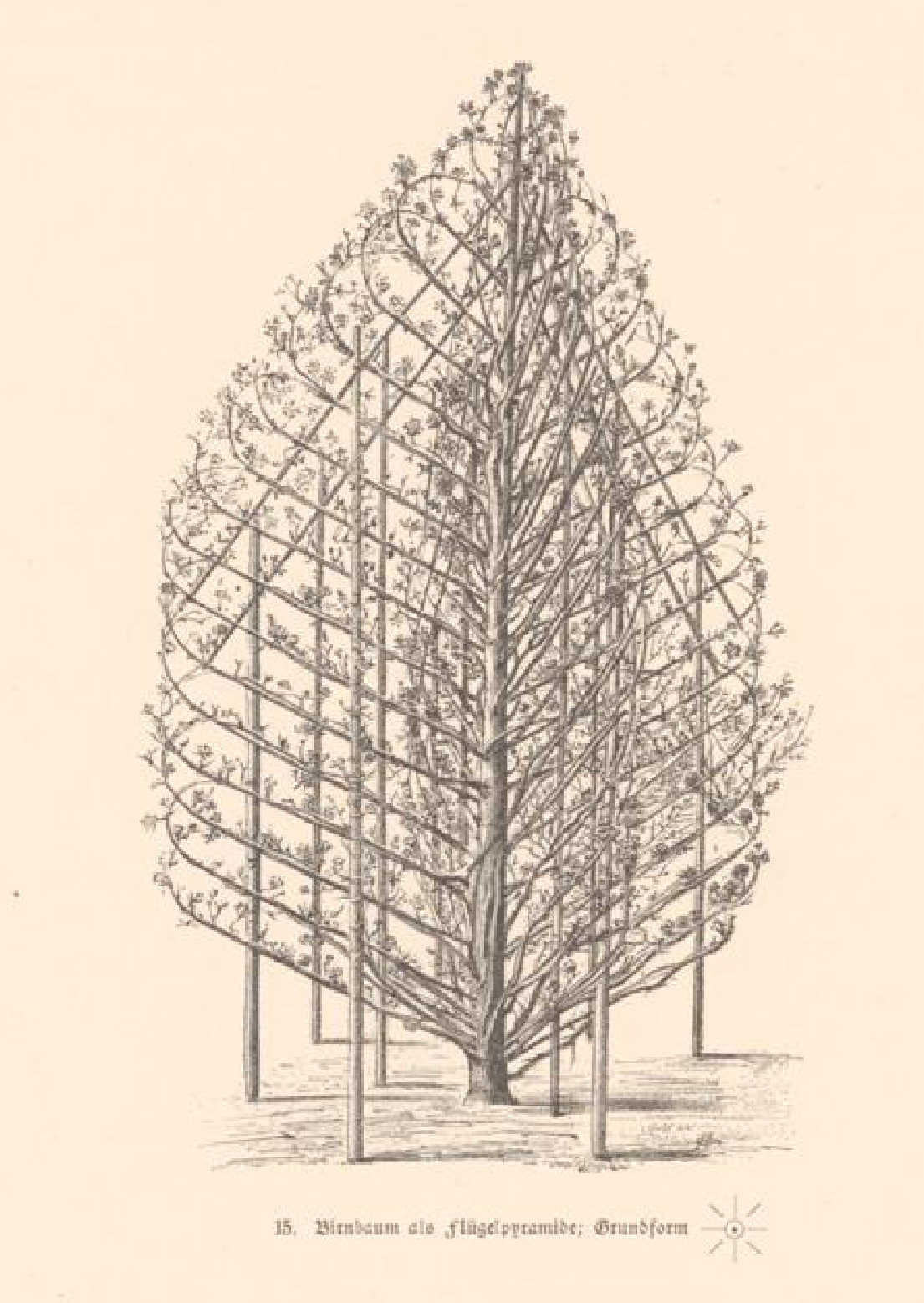 Birnbaum zu einer Flügelpyramide geformt